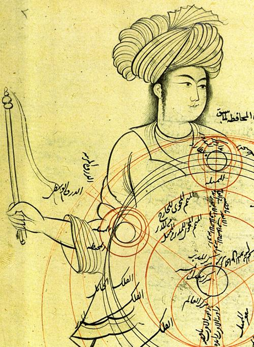 Picture taken by Zereshk from old manuscript of Qotbeddin Shirazi's treatise (13th century). I can give ISBN number if needed.